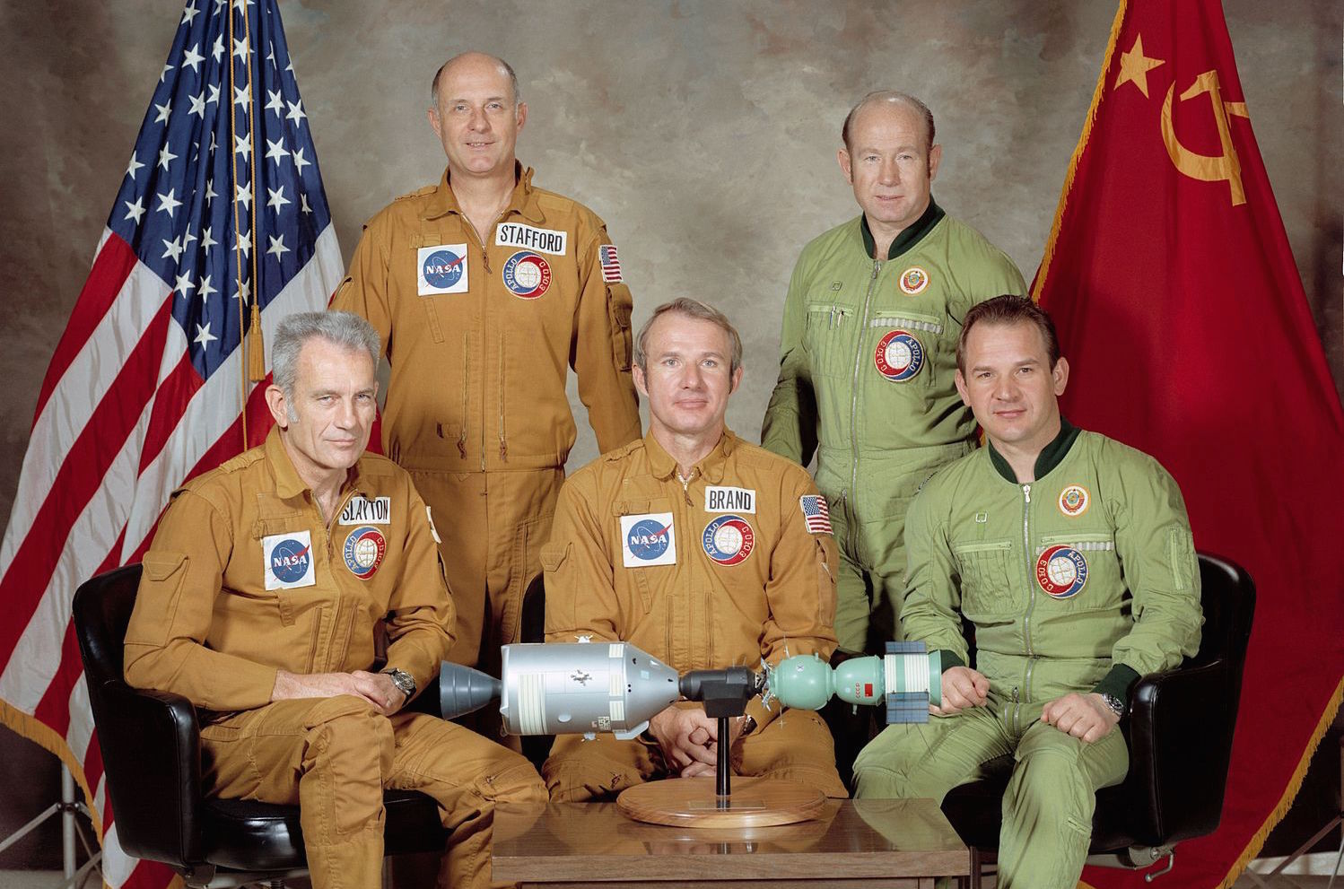 Vertically cropped version of File:Portrait of ASTP crews - restoration.jpg